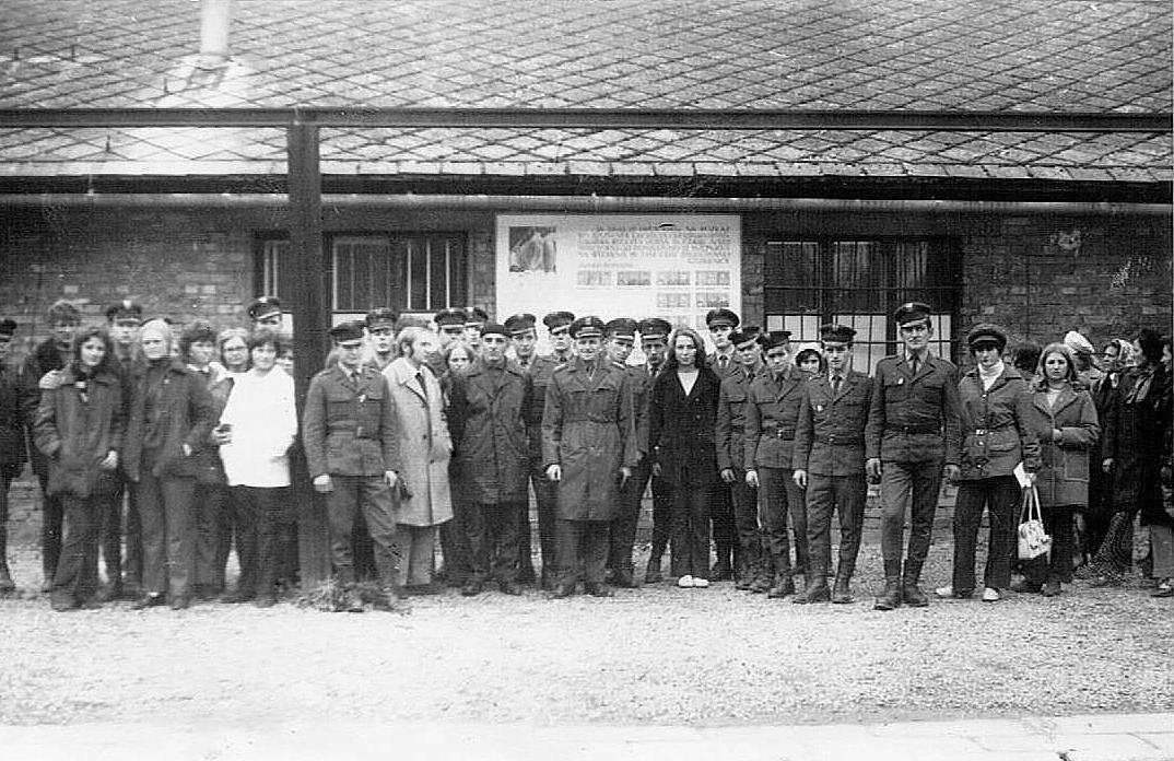 WOP post in Zebrzydowice.